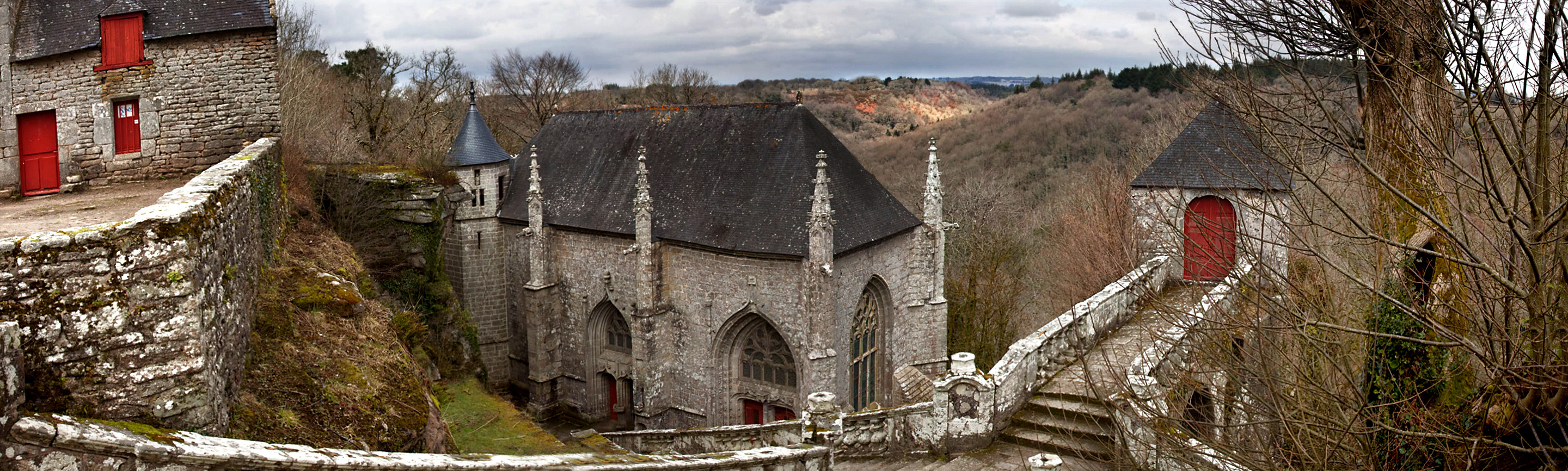 Panoramic overview of the chapel Sainte Barbe, in the town of Le Faouët, Brittany (Morbihan).